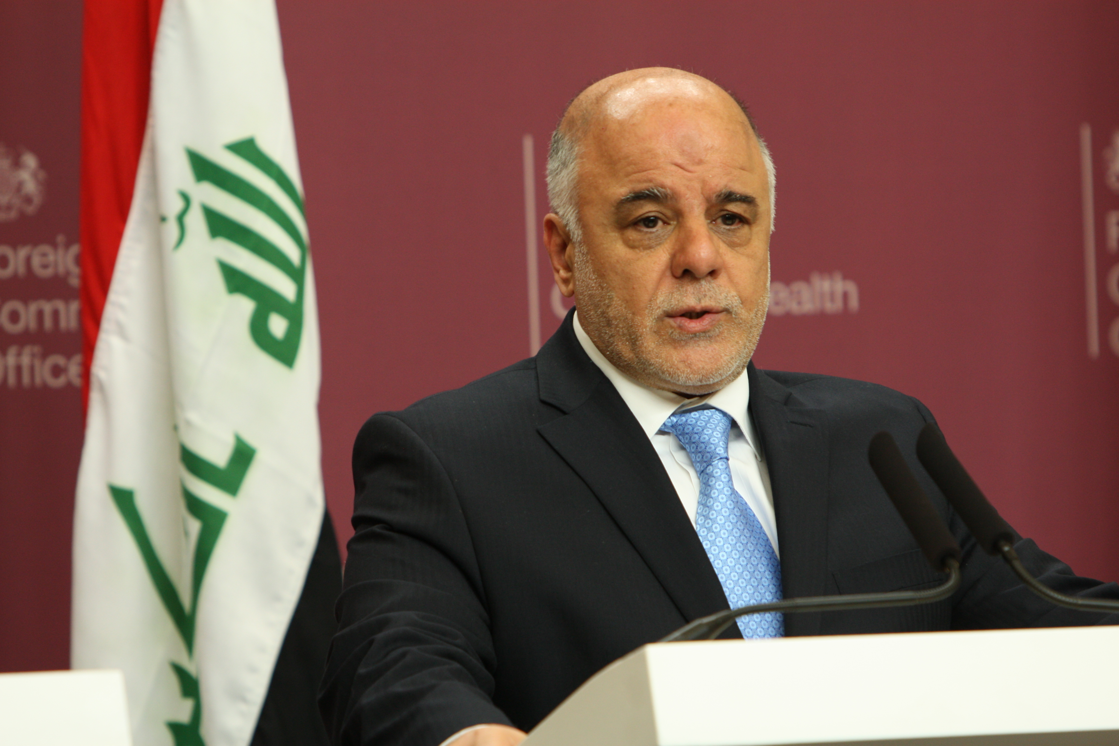 Haider Al-Abadi, Prime Minister of Iraq speaking to the media following the Counter-ISIL Coalition Small Group Meeting in London, 22 January 2015.